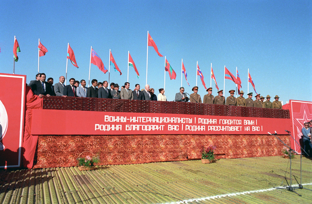 “First stage in the Soviet troop withdrawal from Afghanistan”. Soviet soldiers-internationalists returning home from the Democratic Republic of Afghanistan.